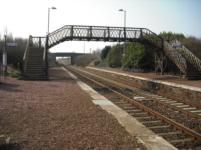 Breich Station Monday to Saturday trains stop once in the morning heading to Edinburgh and once in the evening from Edinburgh with a second request stop later. One of the least used stations in Scotland.